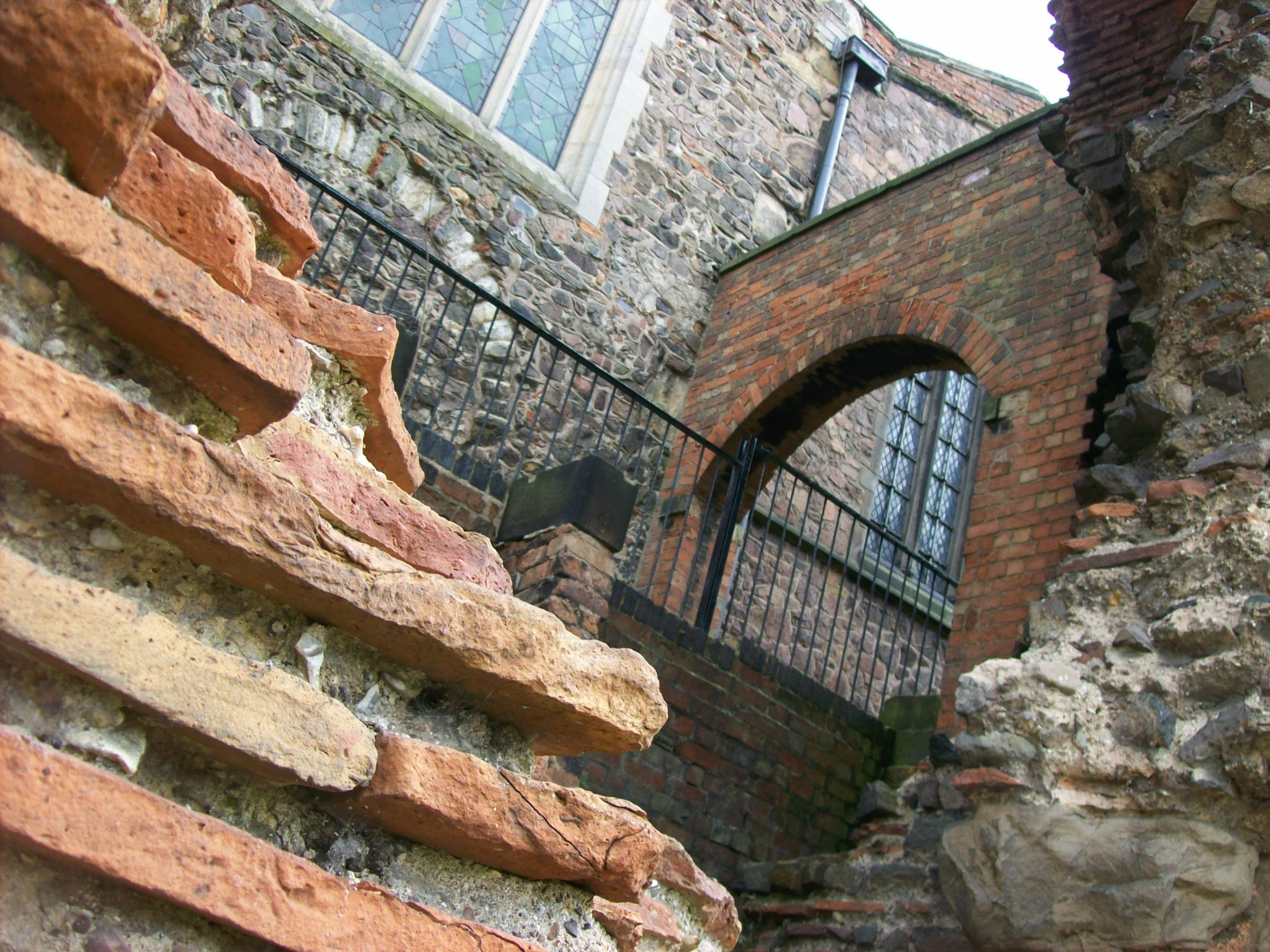 Jewry Wall, with west wall of St. Nicholas, Leicester